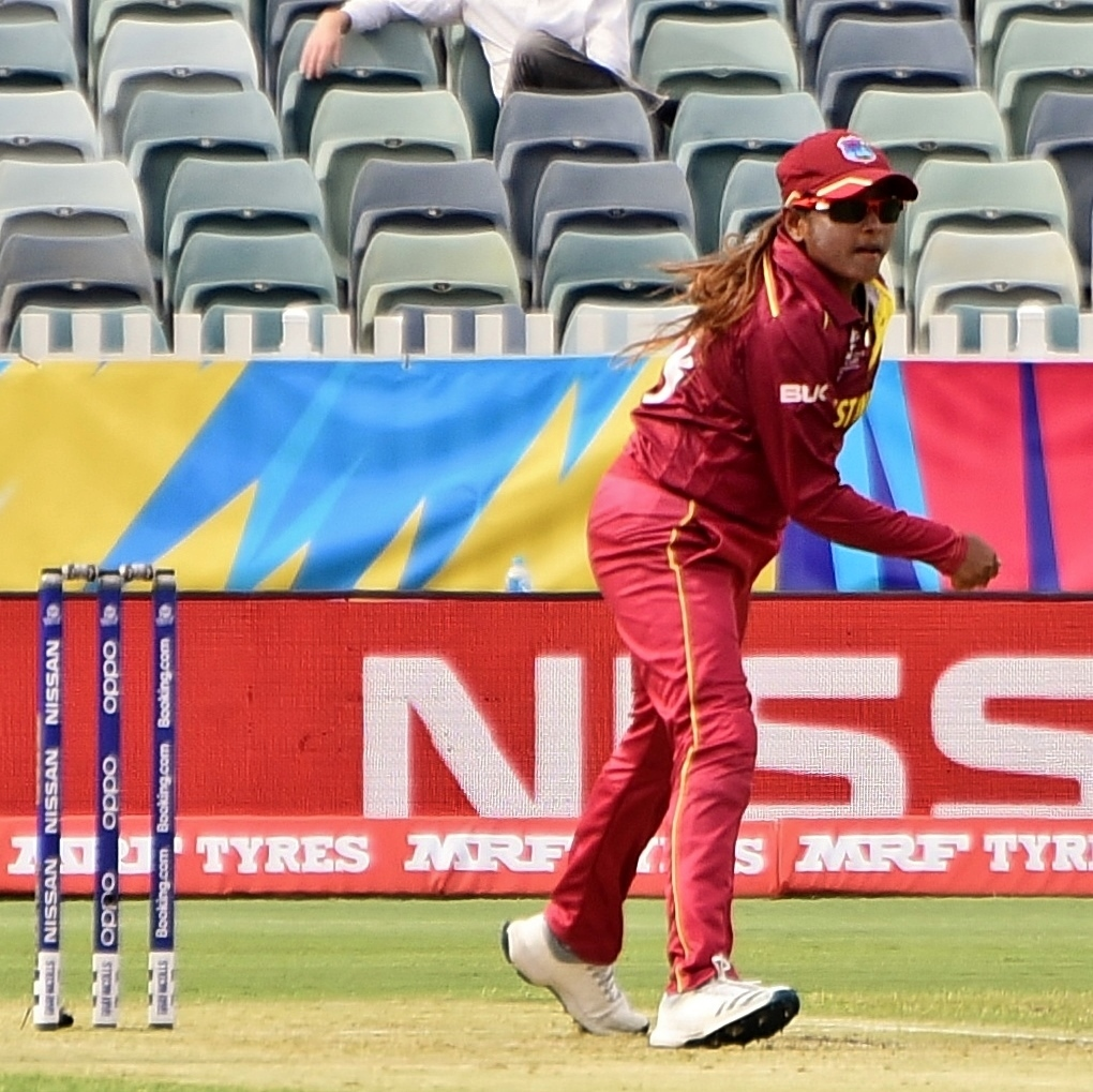 Anisa Mohammed bowling for the West Indies against Thailand during their 2020 ICC Women's T20 World Cup match at the WACA Ground in Perth, Australia